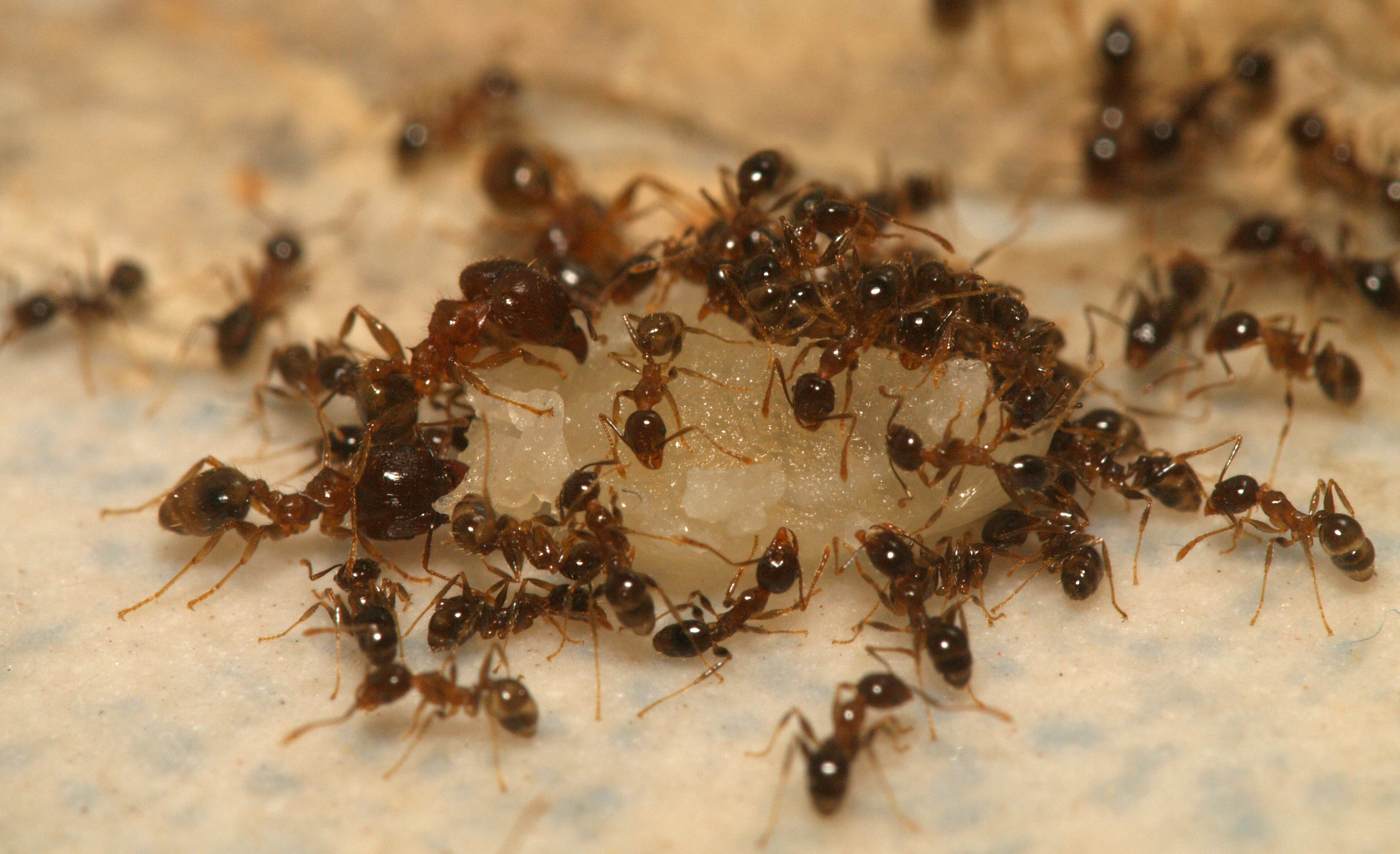 Pheidole megacephala in a flat in Kowloon, Hong Kong, feeding on a crumb. Minor and major workers visible.